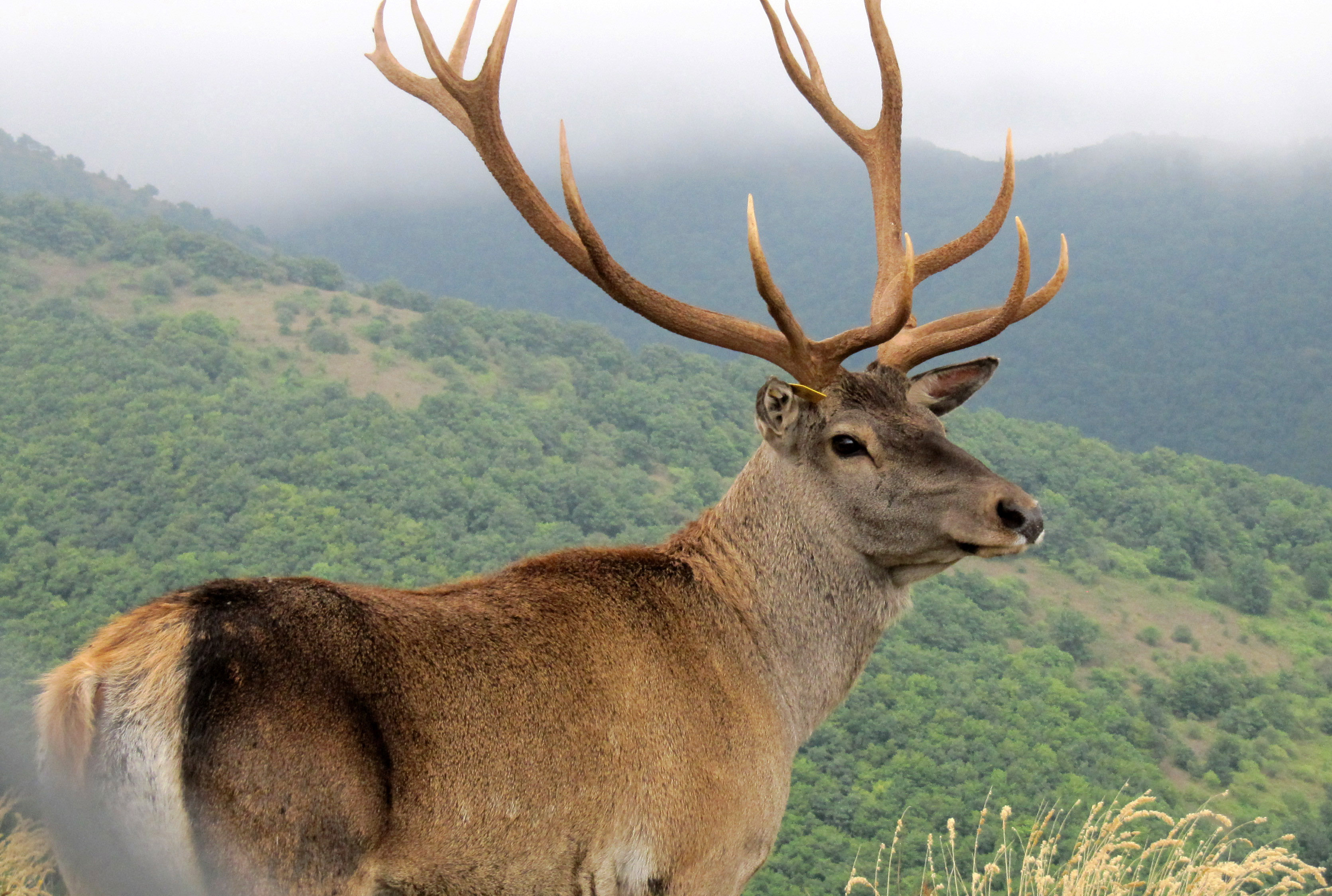 A Caspian red deer in Arasbaran Protected Area, East Azerbaijan Province, Iran.